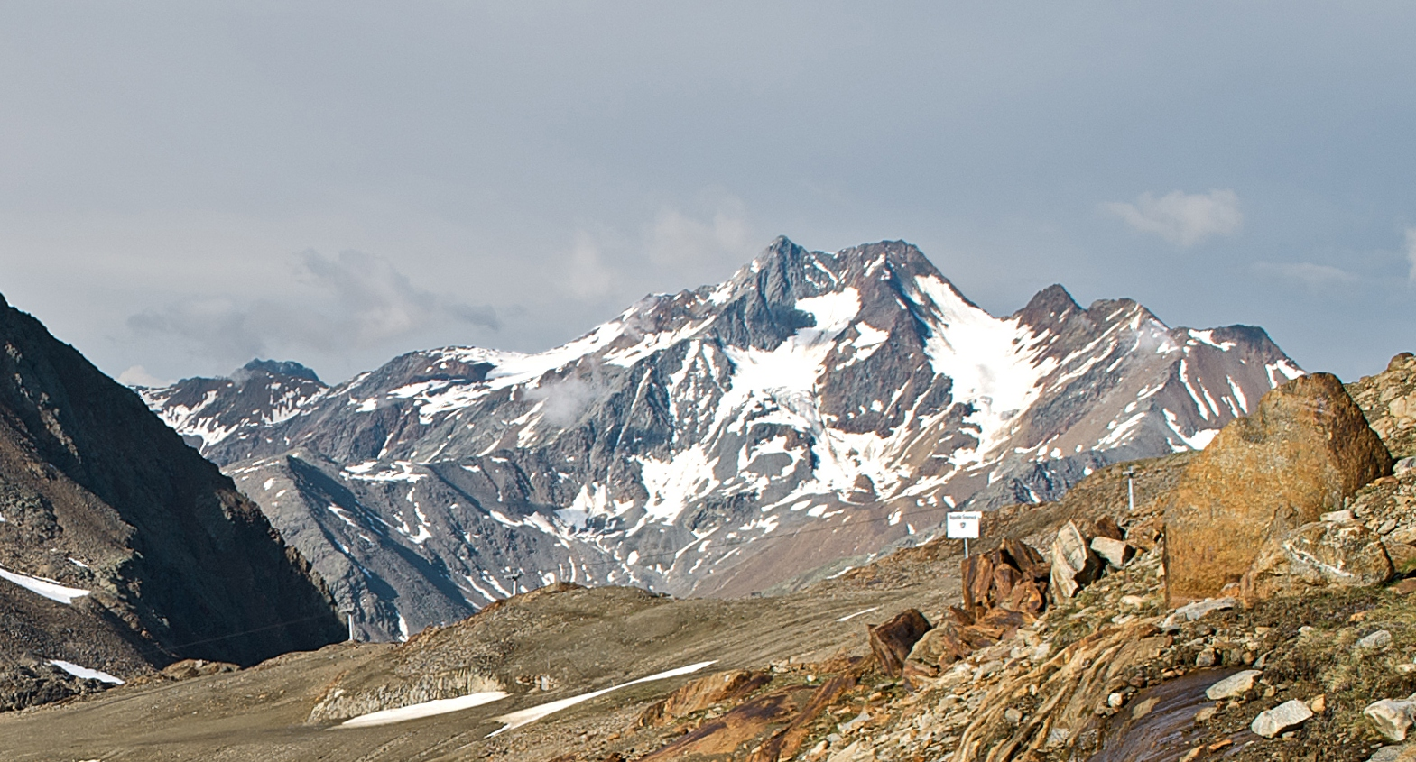 Saldurner Kamm in the Ötztal Alps along with the Lagaunspitze (left) and the Saldurspitze (right)